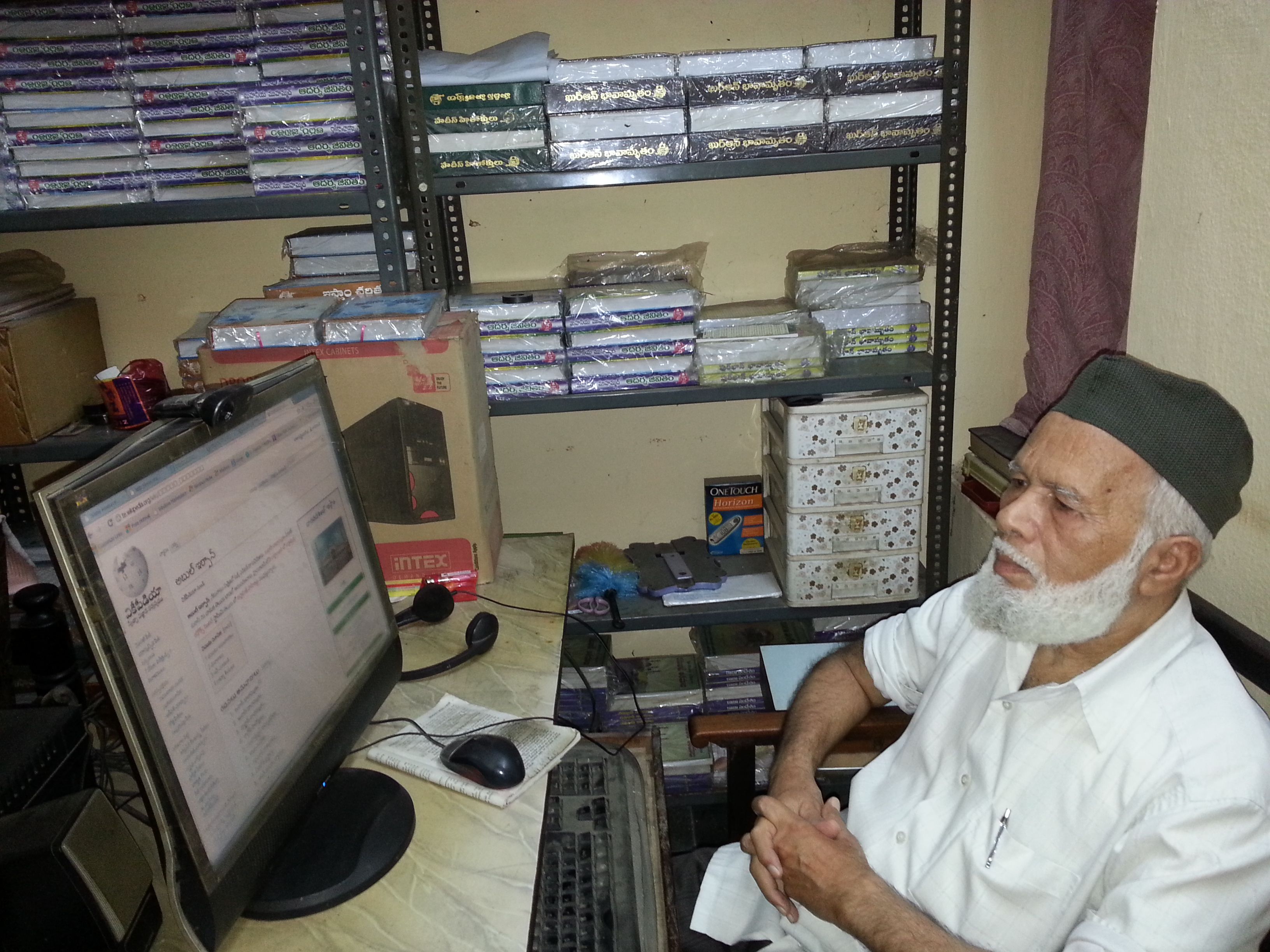 Abul Irfan a prolific writer of Islamic literature in Telugu at his residence in Hyderabad